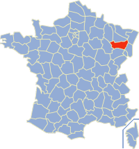 Map of France with highlighted #88 department.